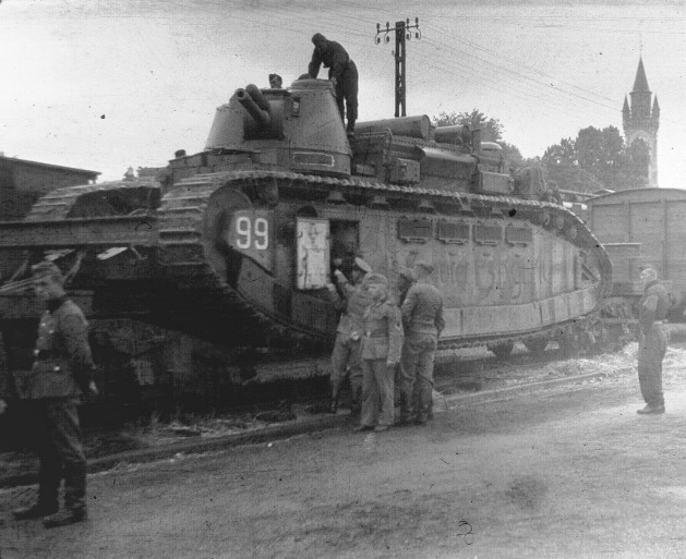 Char 2C no. 99 "Champagne" after capturing by German forces in western France, summer 1940